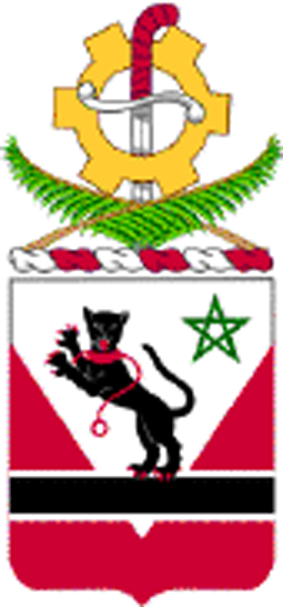 16th Engineer Battalion Coat of Arms